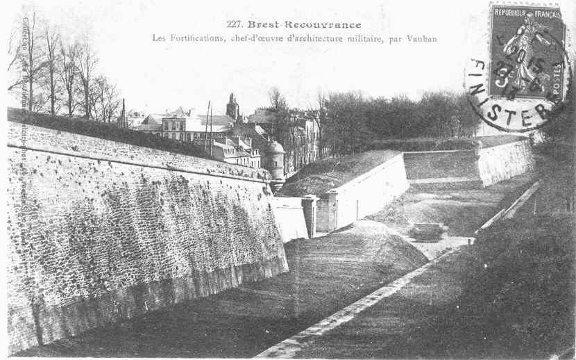 Brest rampart at turn of the 19th century